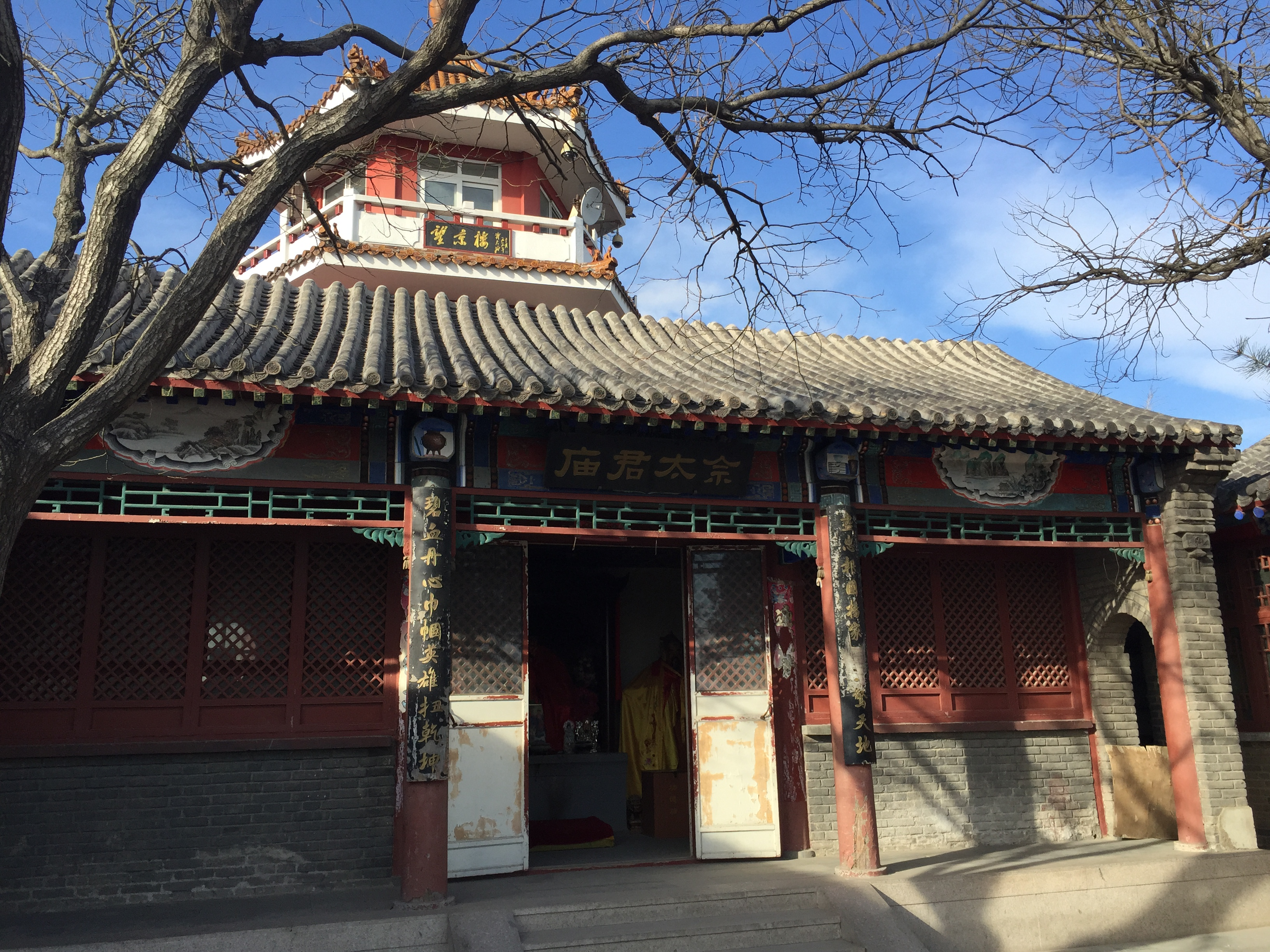 The temple for Madame She (佘太君).